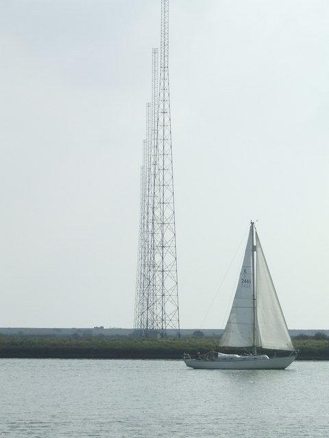 Two types of masts The tall radio masts on Orford Ness Suffolk. Info on the transmitter masts see Orfordness_transmitting_station